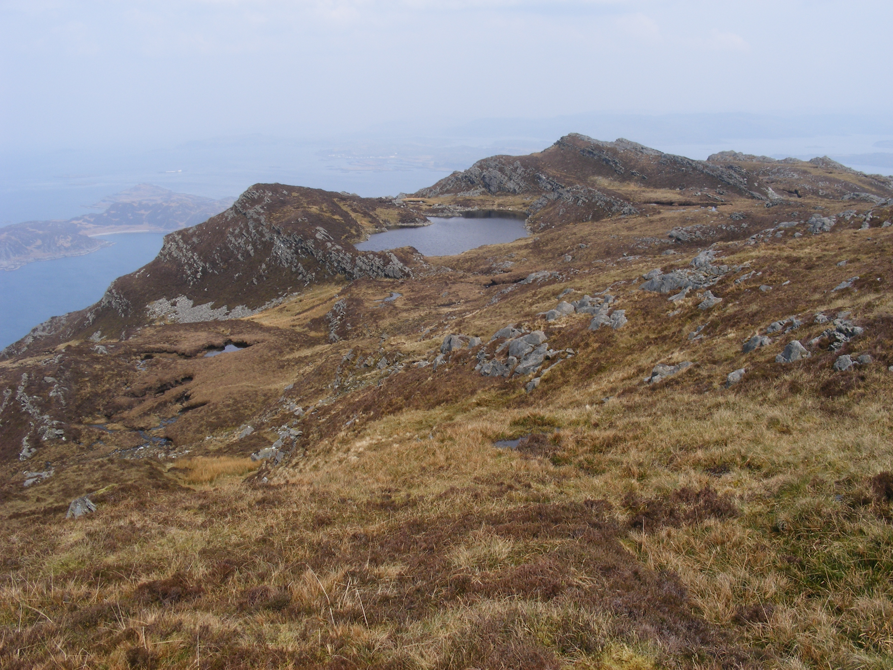 Scarba: Looking north along the main